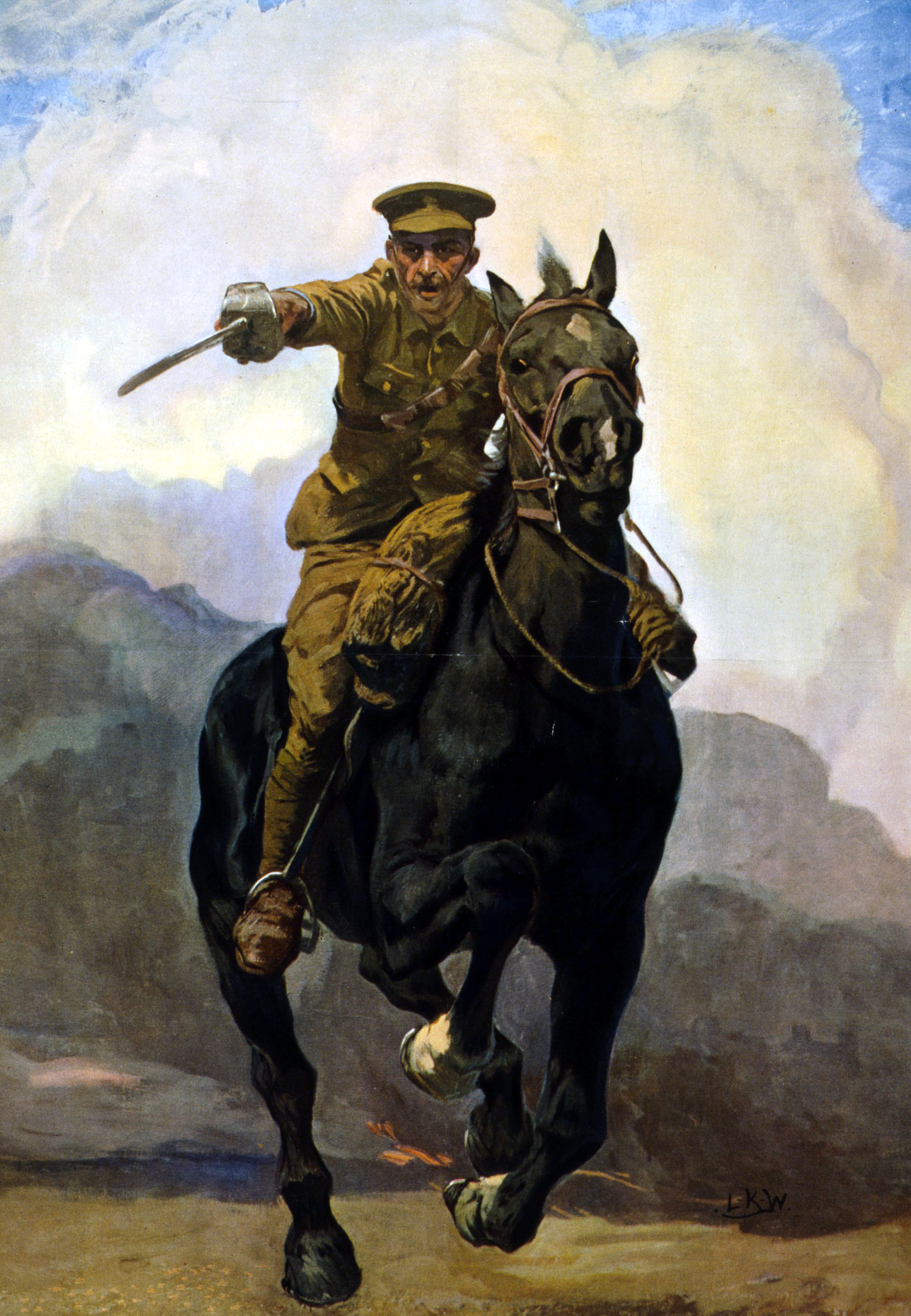 Title: Forward! Forward to victory. Enlist now / L.K.W. ; printed by David Allen & Sons, Ltd., Harrow, Middlesex. Date Created/Published: London : Parliamentary Recruiting Committee, [1915] Medium: 1 print (poster) : lithograph, color ; 76 x 49 cm. Summary: Poster showing a mounted soldier brandishing a sword, his horse at full gallop. Reproduction Number: LC-USZC4-11027 (color film copy transparency) Rights Advisory: No known restrictions on publication. For information see "World War I Posters" ( Call Number: POS - WWI - Gt Brit, no. 104 (C size) [P&P] Repository: Library of Congress Prints and Photographs Division Washington, D.C. 20540 USA